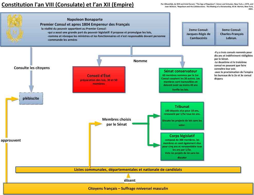 Constitution an VIII et le Empire Francais Par JMvanDijk, de Will and Ariel Durant, “The Age of Napoleon”, Simon and Schuster, New York, c.1975, and Isser Woloch, “Napoleon and His Collaborators: The Making of a Dictatorship, W.W. Norton, New York, 2001.